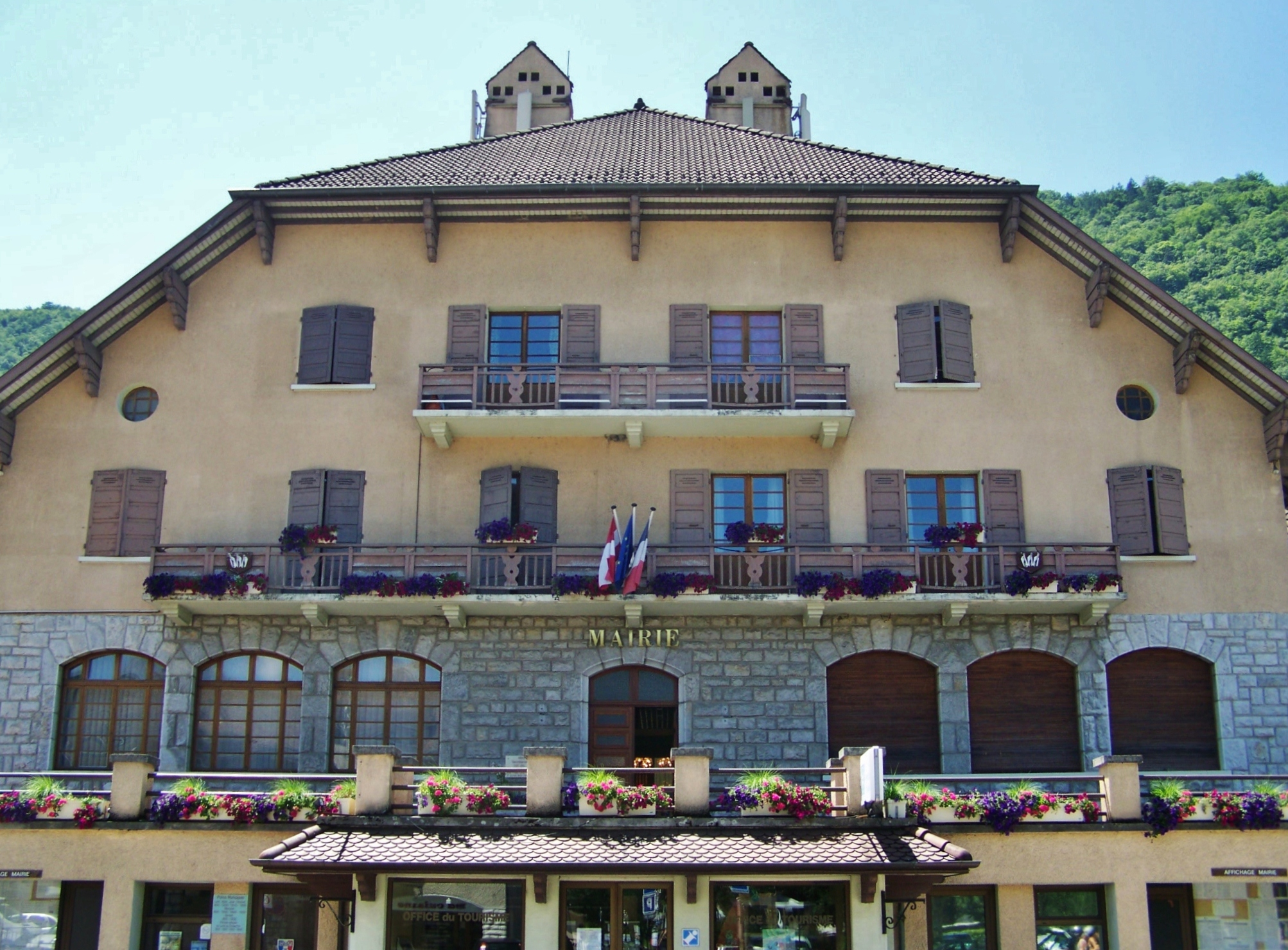 Commune of Sevrier city hall, near Annecy in Haute-Savoie, France.